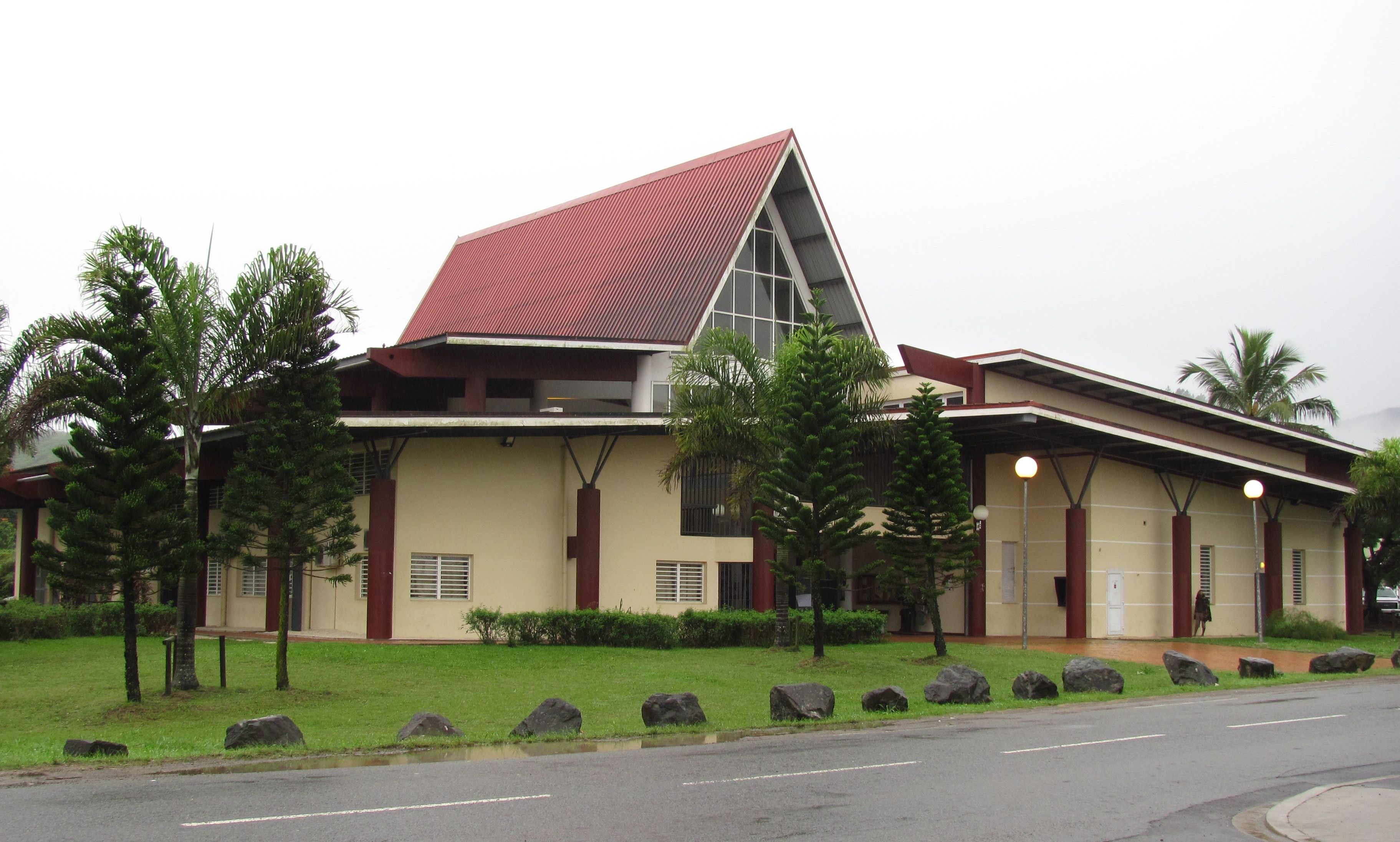 Cultural Centre, Païta, New Caledonia